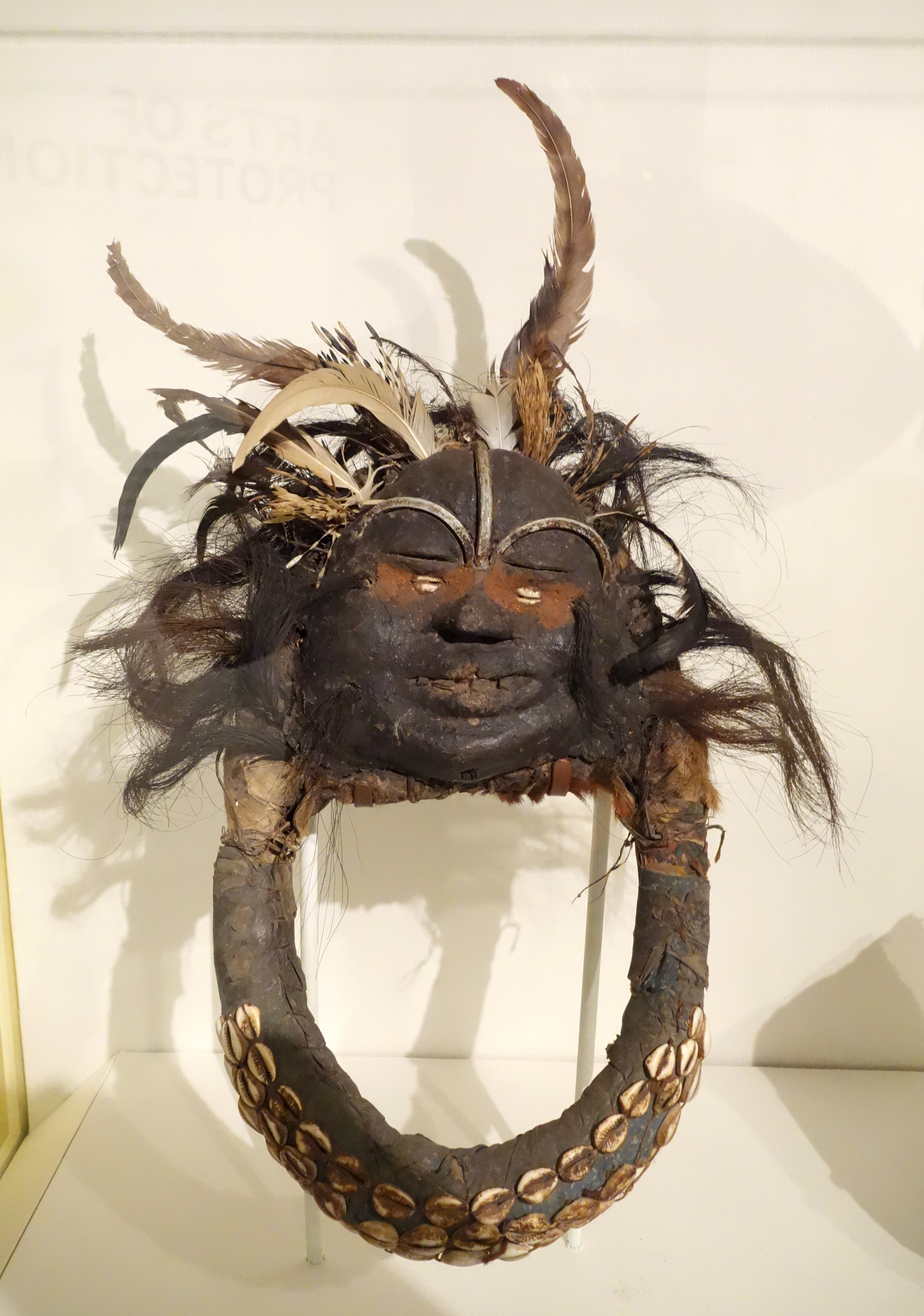 Exhibit in the Brooklyn Museum - Brooklyn, New York, USA. This artwork is in the public domain because the artist died more than 70 years ago.